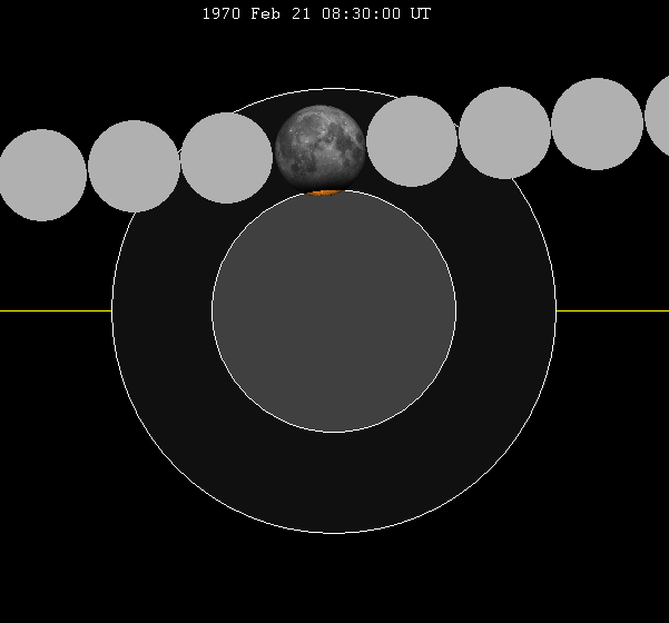 February 1970 lunar eclipse chart of moon's path through the earth's shadow. thumb